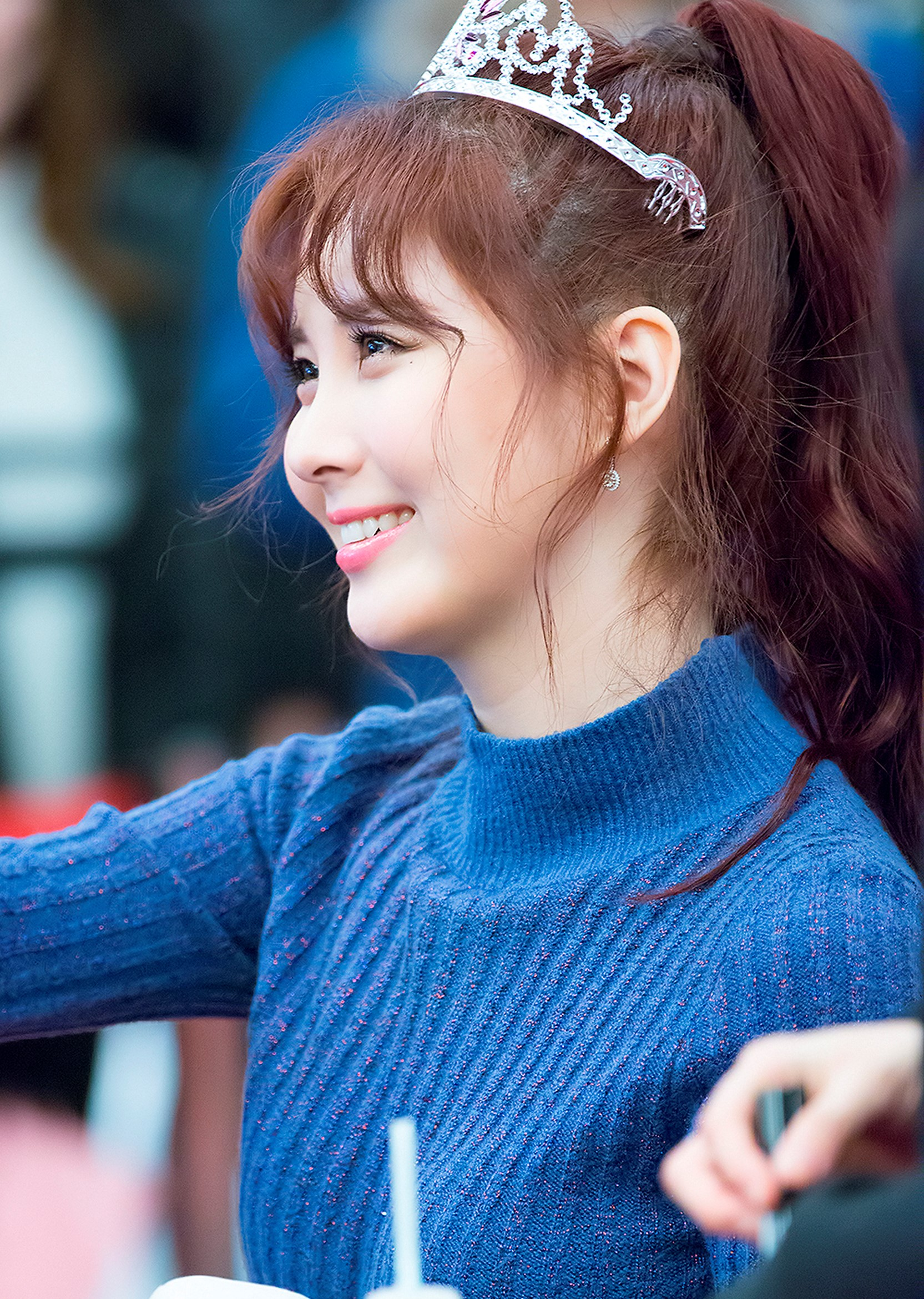 Seohyun at a fansigning on February 5, 2017